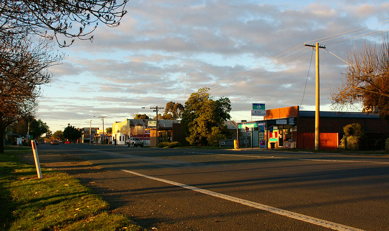 Looking north along Railway Place in Elmore, Victoria. Photo by Richard Hill. 12/7/2006